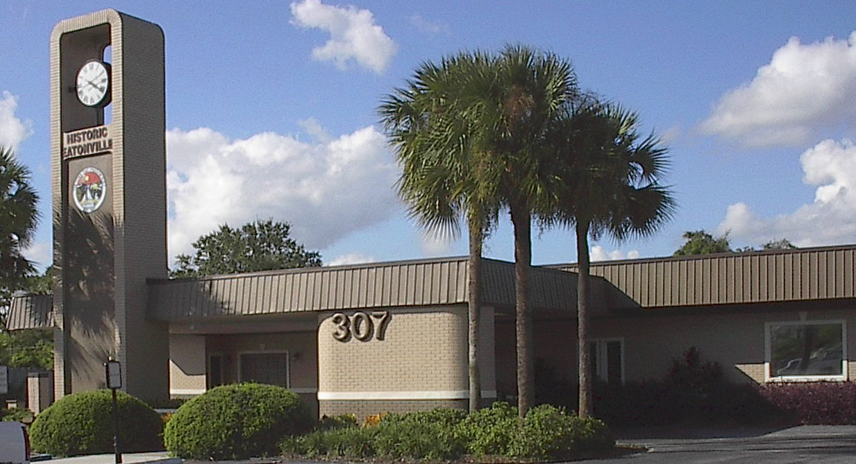 Town Hall in Historic Eatonville, Florida, the first all-black town to be incorporated in the United States on 15 August 1887.